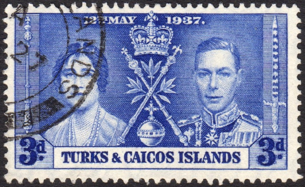 Stamp